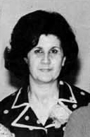 Anisa Makhlouf, wife of syrian president Hafez al-Assad